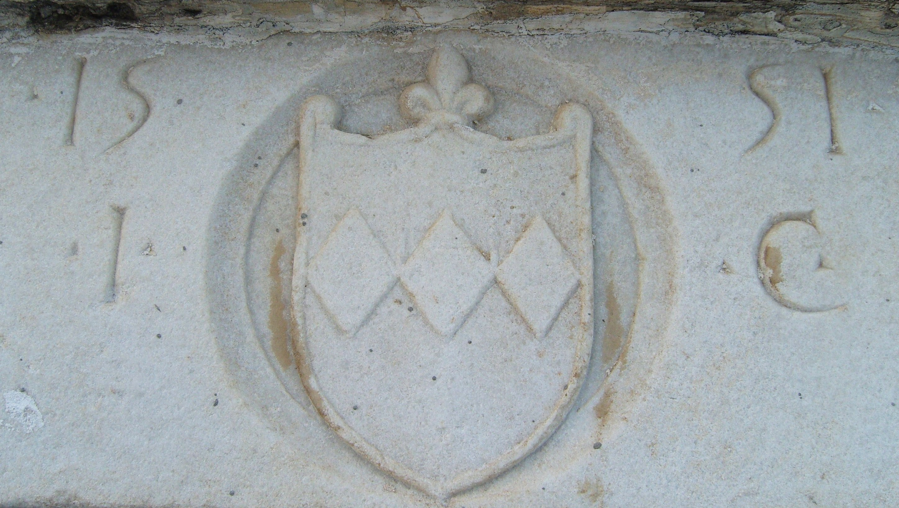 Coat-of-arms of Crispo family, with initials of probably Giovanni IV Crispo. Kastro, Sifnos island